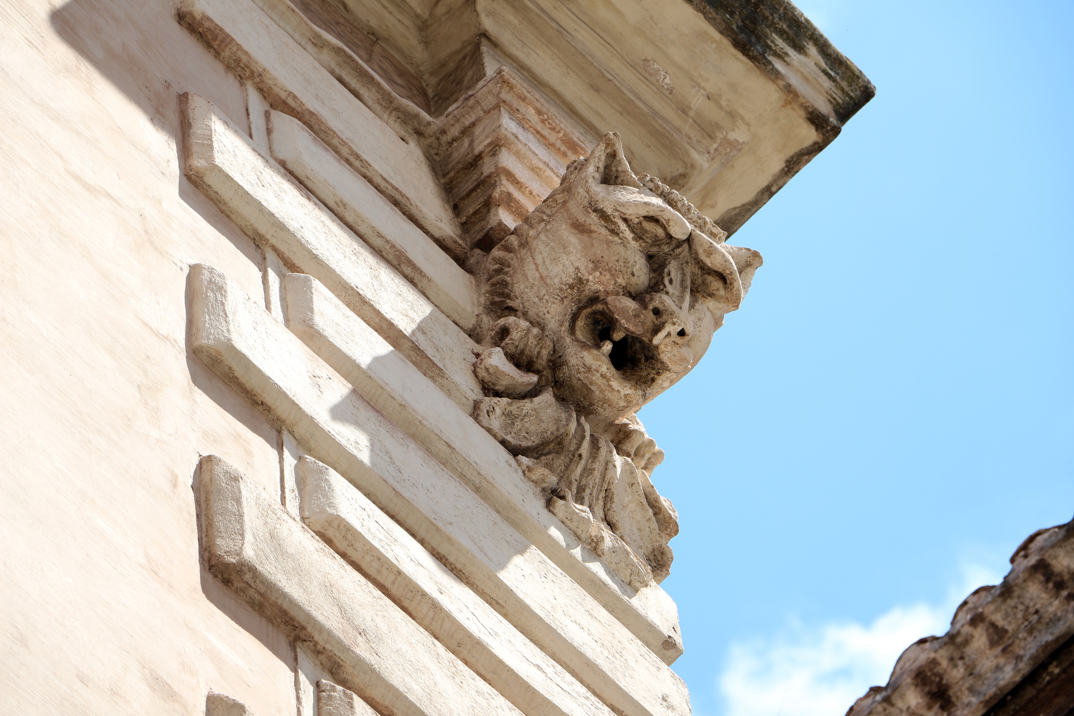 Buildings in Taranto